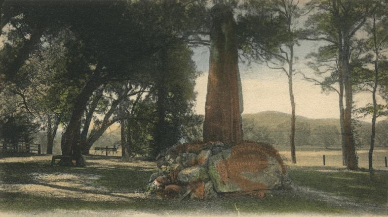 Monument to the Stockbridge Indians, Stockbridge, MA; from a 1905 postcard published by The Rotograph Company. The obelisk was erected in the 1870s to commemorate the Mahican burial ground.